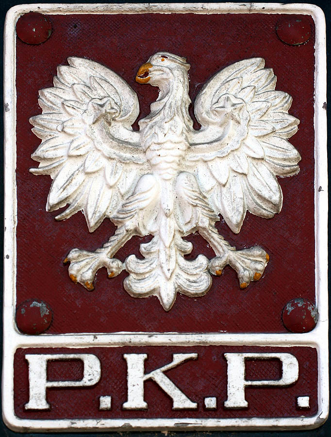 A historical insignia of PKP, Polskie Koleje Państwowe (Polish State Railways). Year unknown, however since white eagle is missing crown it means that the insignia originates from period 1945-1989.